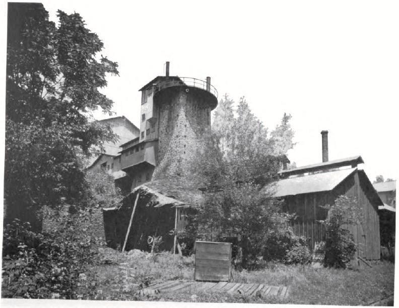 Ruins of Isabella Furnace from near the base of the stack; taken about a decade after furnace blown out in 1894.